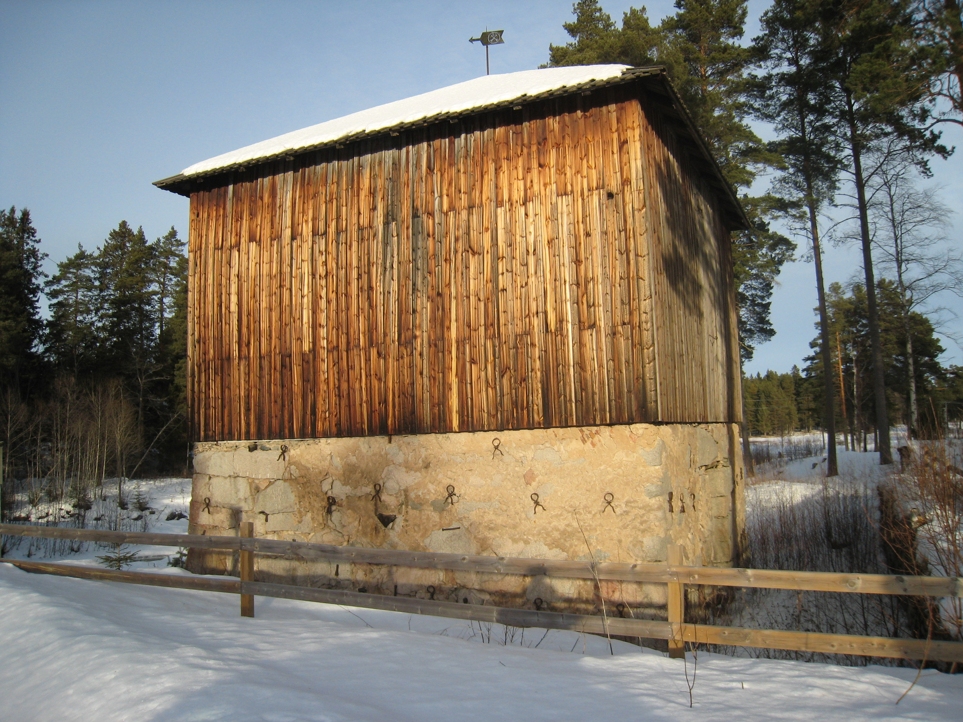 At Limå Ironworks, Dalarna, Sweden. Historic building.